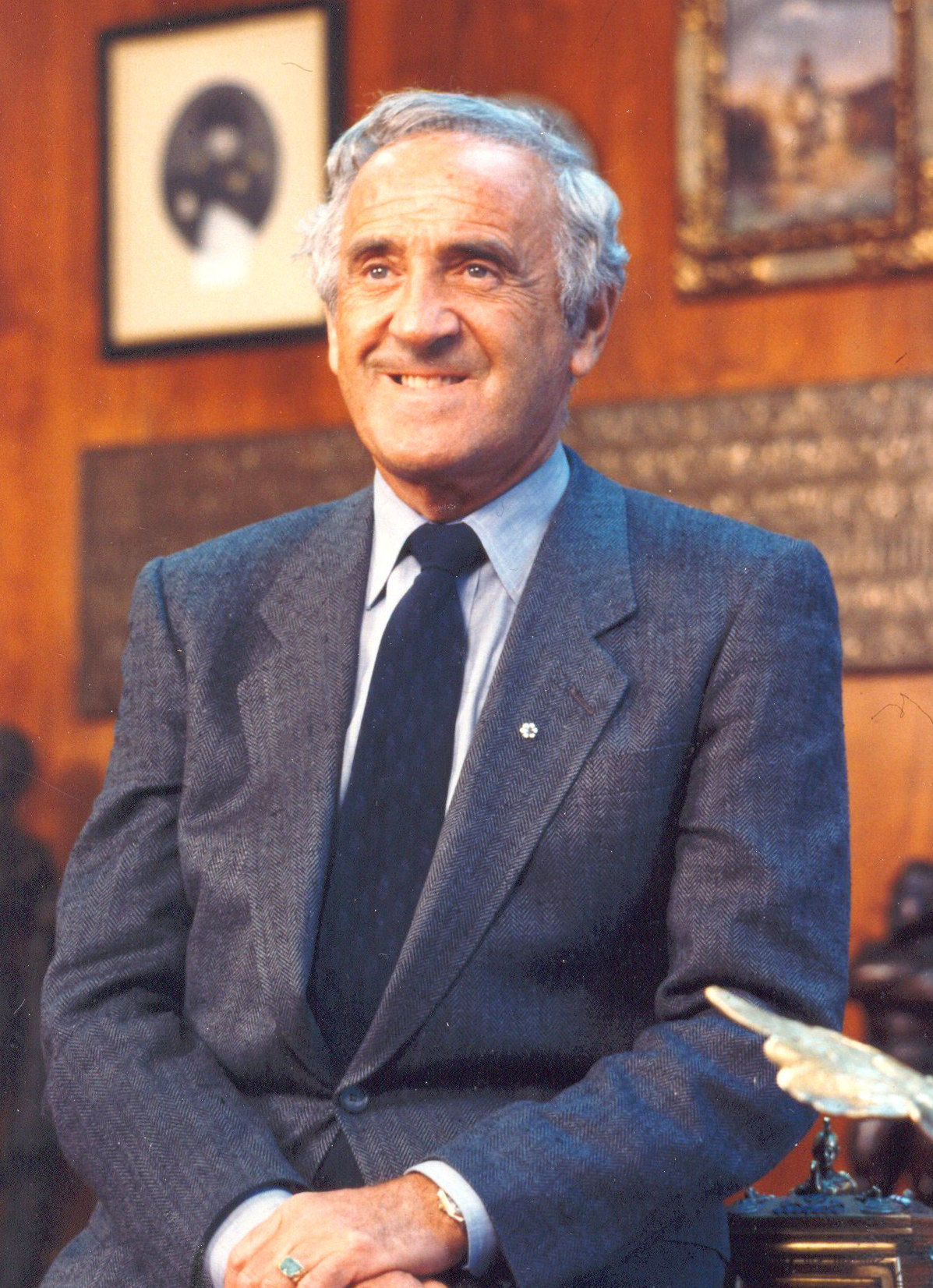 Mr. Ben Weider, Author of several books on Napoleon, and president of the International Napoleonic Society. Permission by Ben Weider